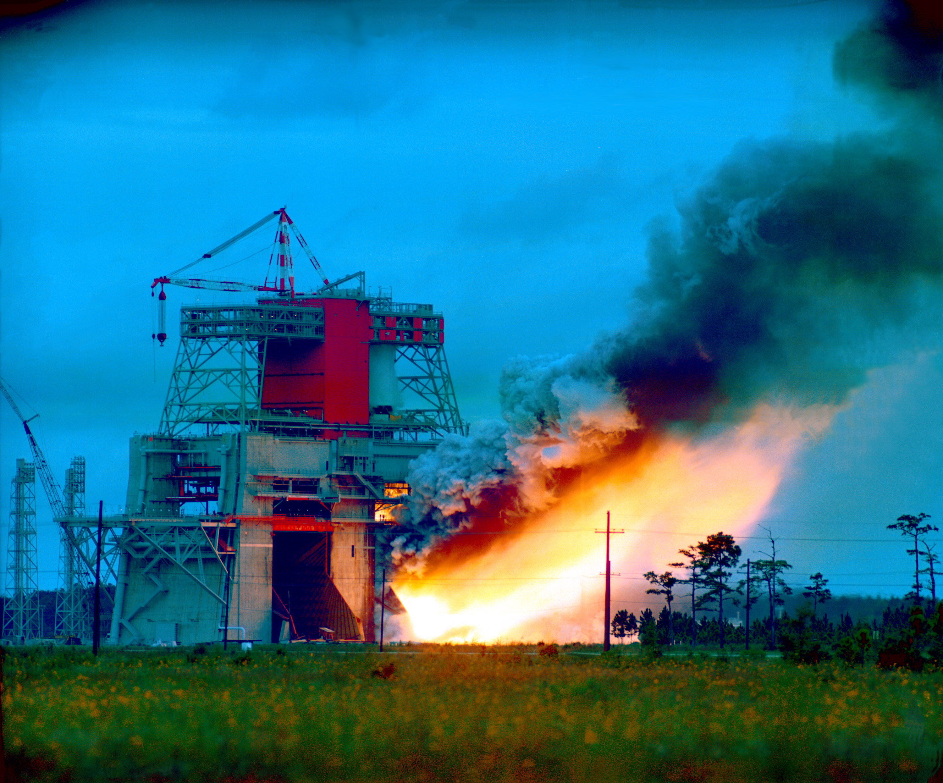 Smoke and flames belch from the huge S-1C test stand as the first stage booster of the Apollo/Saturn V space vehicle is static fired at the NASA Mississippi Test Facility (MTF), currently called Stennis Space Center. The huge 138 foot-long rocket had five engines that develop 7.5 million pounds of thrust and launched the 363 foot-long Saturn V up to a height of 40 miles at a speed of 6,000 miles per hour. The first stage was built by the Boeing Company at NASA's Michoud Assembly Facility in New Orleans, Louisiana, under the management of Marshall Space Flight Center.